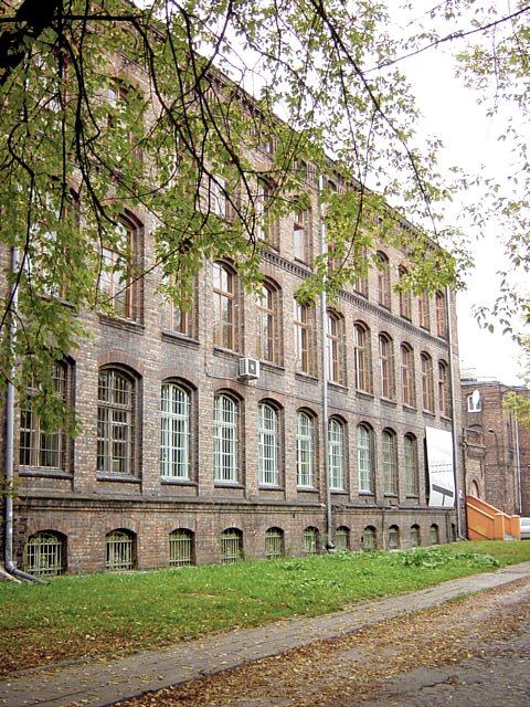 Remains of Lilpop, Rau & Lowewenstein factory, located in Warsaw, Poland, Bema street 65